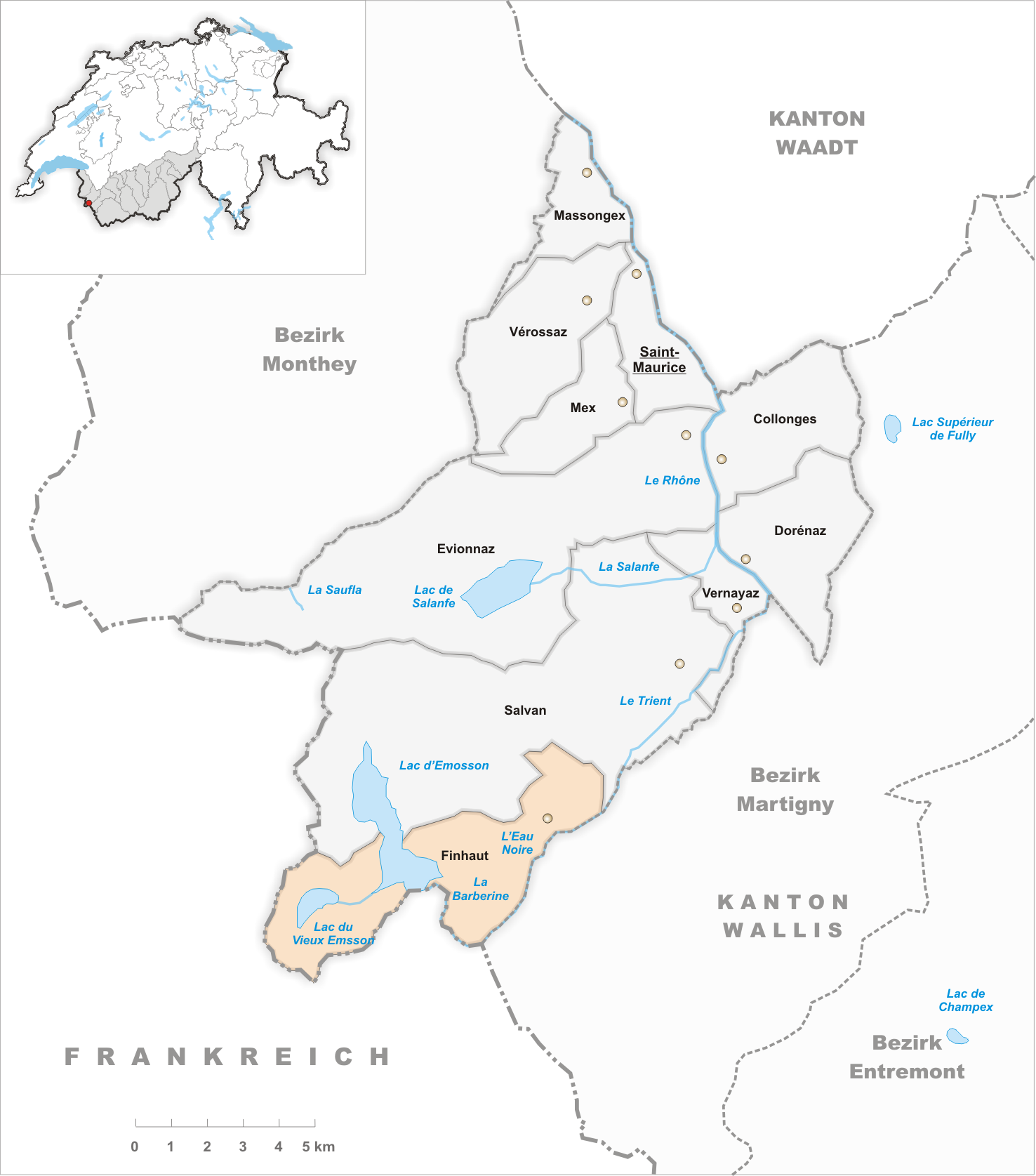 Municipality Finhaut